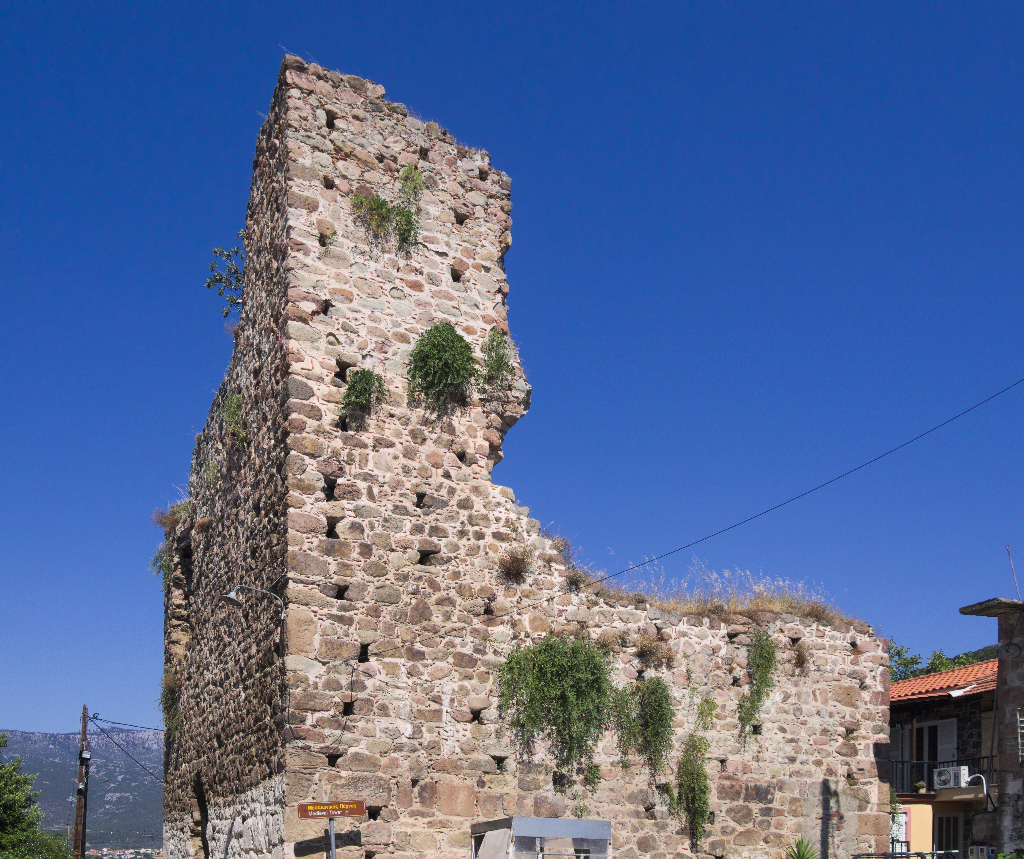 The top of the remains of the Medieval Tower in Kipoi, Kymi-Aliveri